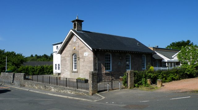 Inverkip Primary School. Viewed from the four way junction of Station Road, Finnockbog Road, Station Avenue and Fran Terrace. See also 1338350.